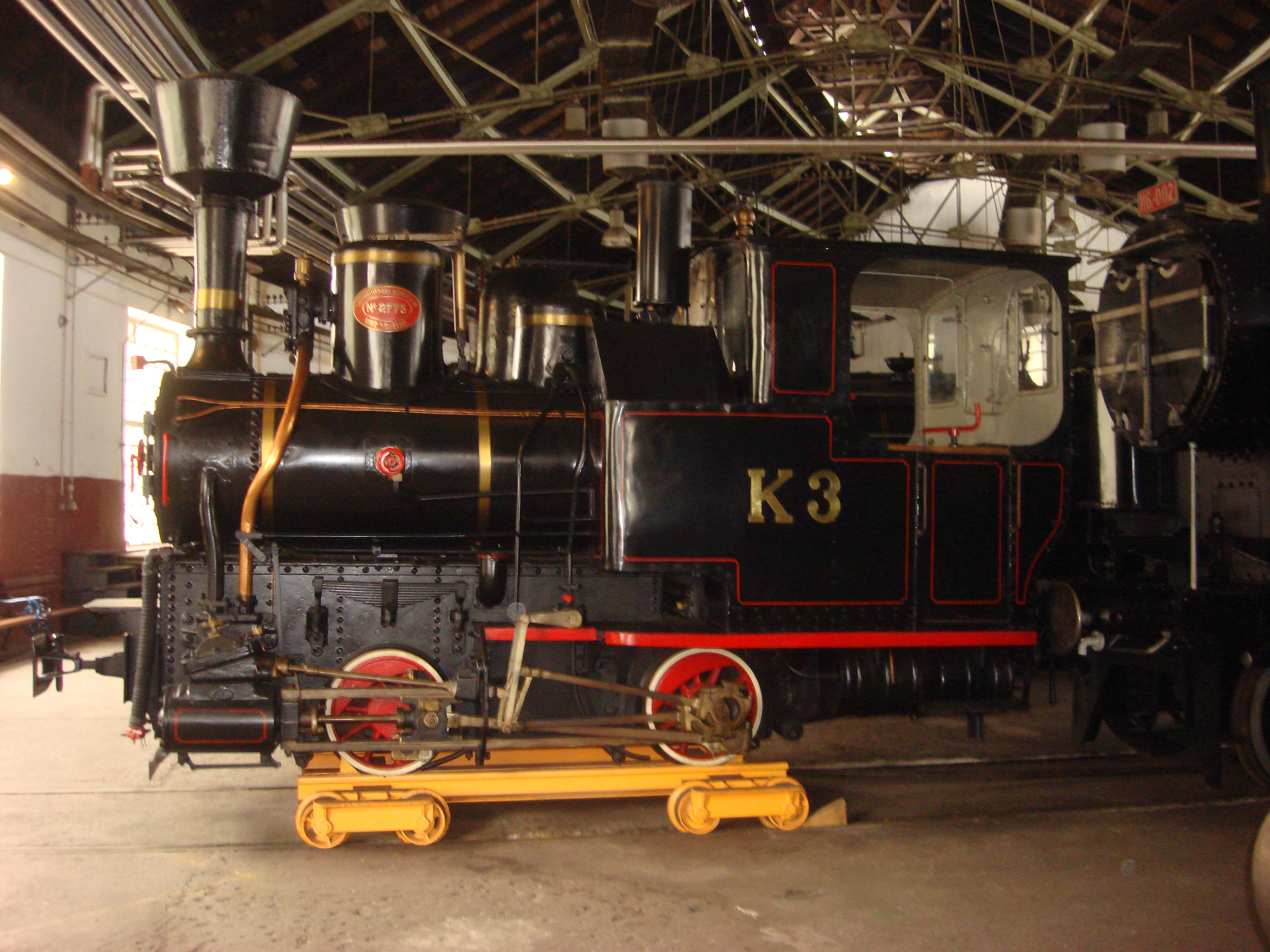 Ljubljana